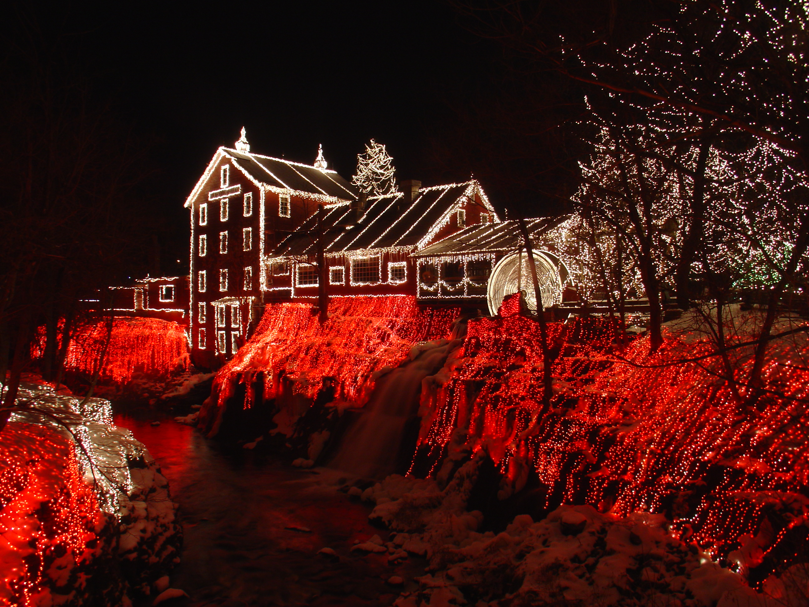 Clifton Mill in Clifton, Ohio is the site of this Christmas display with over 3.5 million lights. The water source is the Little Miami River. Photographer: Matt Kozlowski